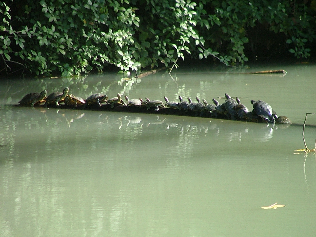 Trachemys su ramo, Villa Pamphilj, Roma , Italy